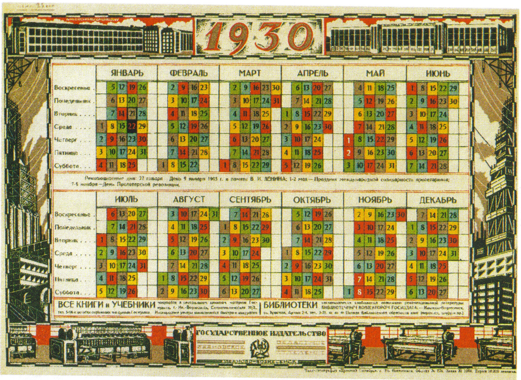 Soviet calendar for 1930 showing Gregorian months, traditional seven-day week, five national holidays, plus colored five-day work week.